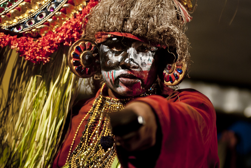 The character Kooli from Mudiyett